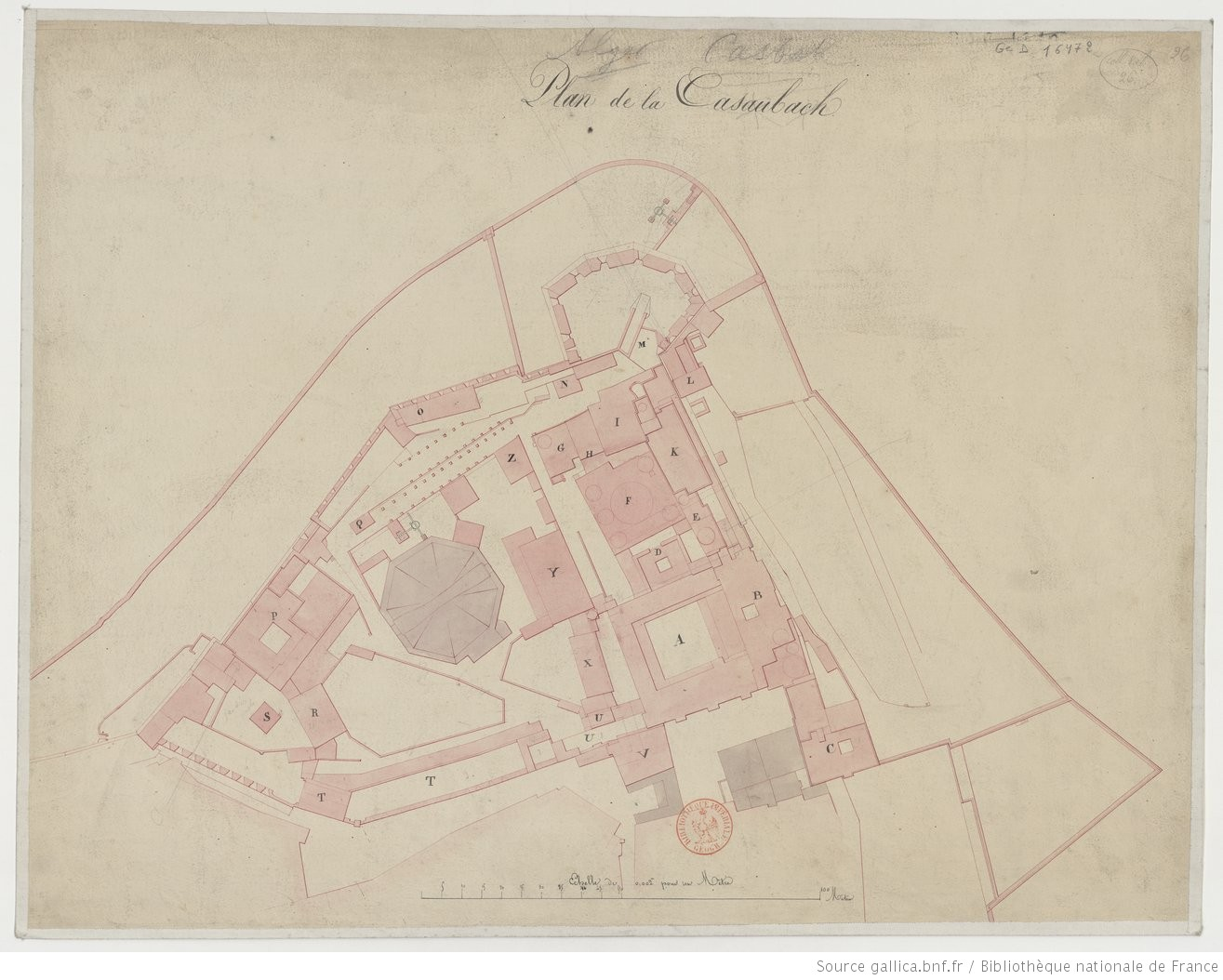 Casbah map